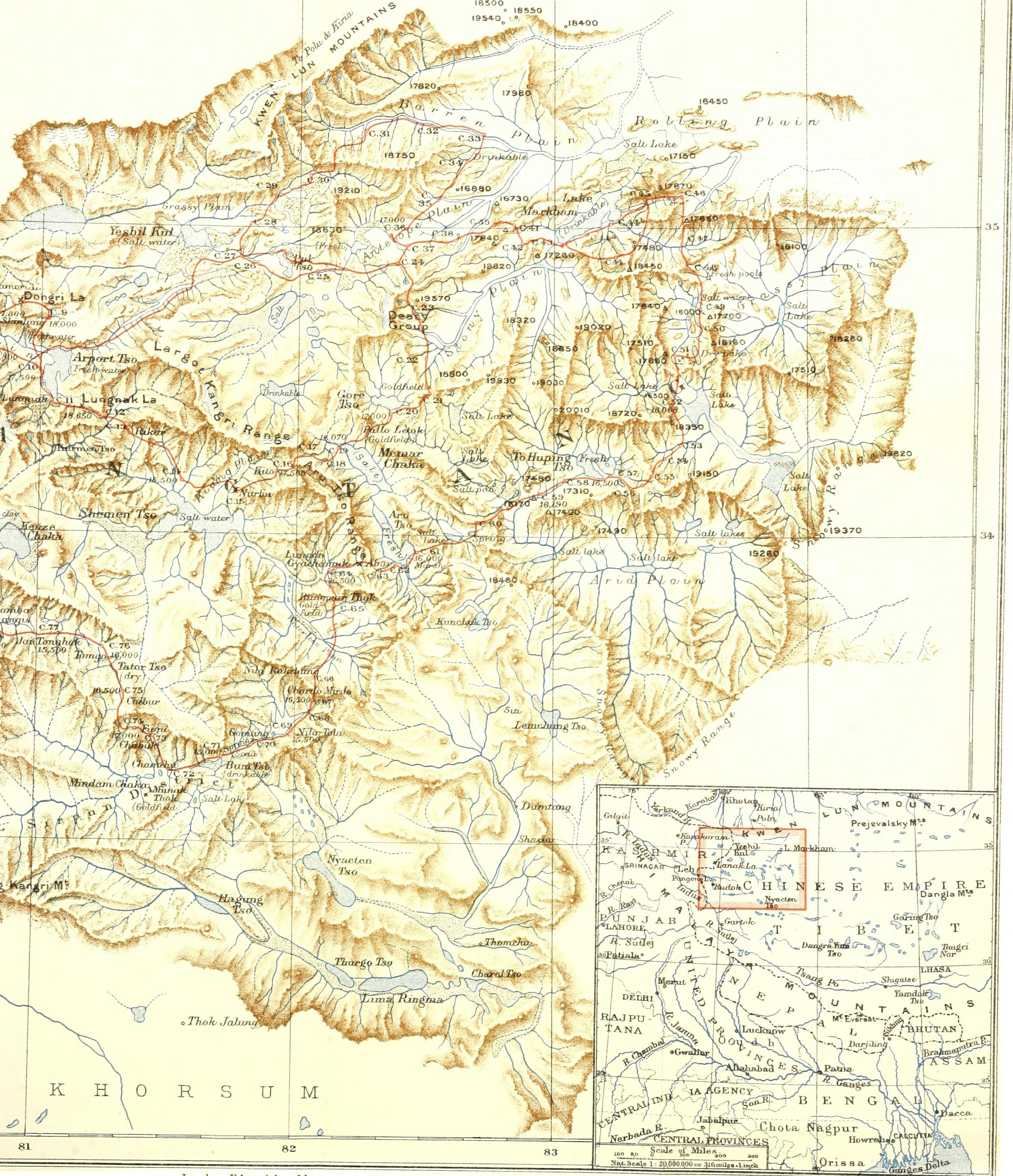 Title: The great plateau; being an account of exploration in Central Tibet, 1903, and of the Gartok expedition, 1904-1905 Year: 1905 (1900s) Authors: Rawling, Cecil Godfrey 1870- Subjects: Gartok Expedition (1904-1905) Publisher: London, E. Arnold Text Appearing Before Image: LorLAon-, EdvraxdAmolA.3y pej-miss-wn of the Royal Geographical Sor^^t^- 81 83 CHINESE 8i TURKESTAN Text Appearing After Image: ^fW- 56 Loildoja; Ed^^axiAmol(l. PART II THE GARTOK EXPEDITION 1904-1905